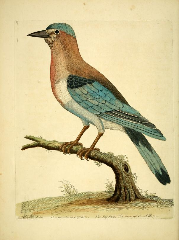 An early depiction of Indian Roller (Coracias benghalensis) from 1731, years before a news species was described by Linnaeus.